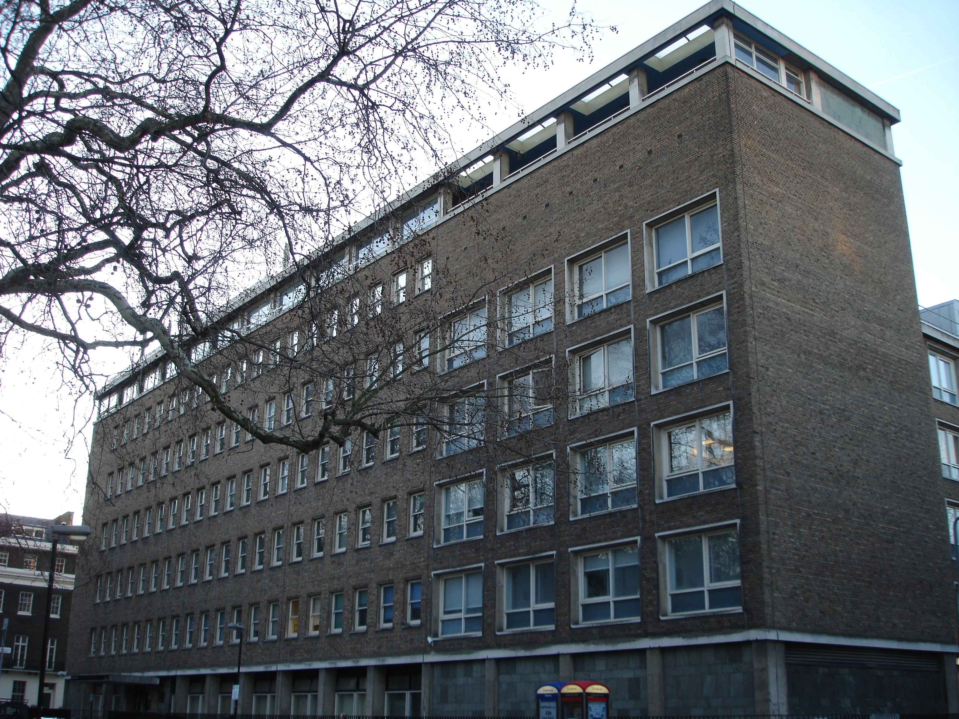 This a photo of the Institute of Archaeology at University College London.